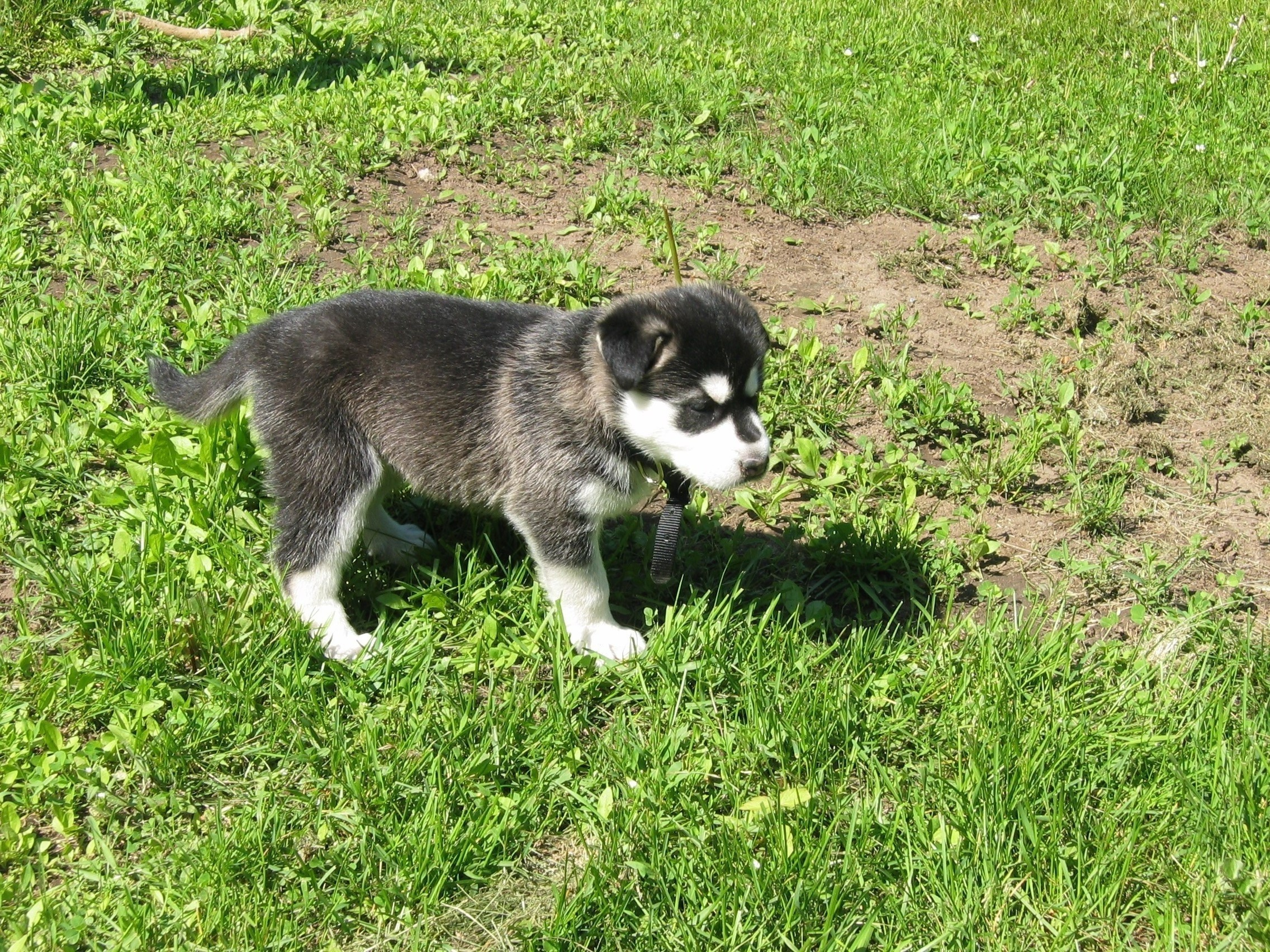 Baby Husky at 5 weeks